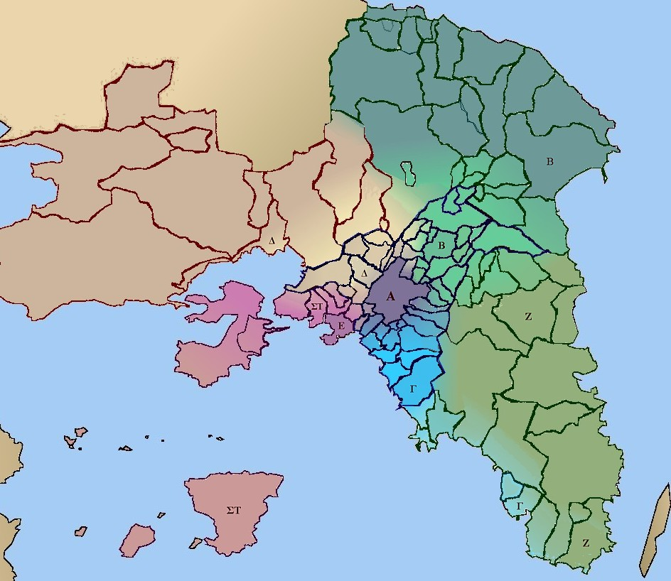 The map depicts the Periphery of Attica, illustrating the dynamic urban development of the various attica resident groups A (Alpha: Downtown Athens), B (Beta: Northeastern Suburbs, Northeastern Attica), Γ (Gama: Southeastern Suburbs, Southeastern Attica), Δ (Delta: Western Suburbs), Ε (Epsilon:Downtown Piraeus), ΣΤ (Sigma-Taph: Piraeus environs, Argosaronikos) and Ζ (Zita: Mesogea and Lavreotiki, East Attica).